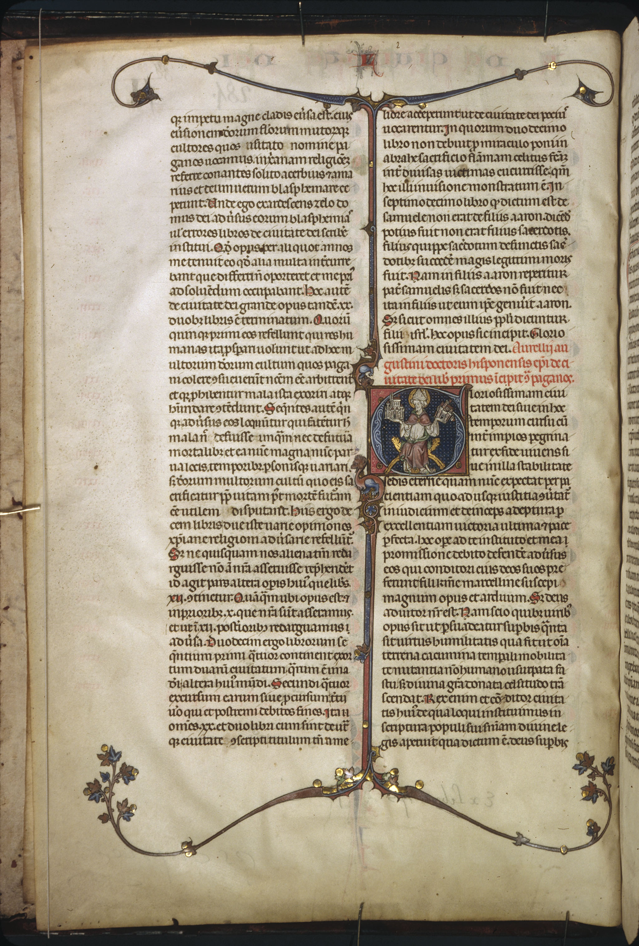 De Civitate Dei (The City of God), France, ink, tempera, and gold leaf on parchment, 130 x 90 mm